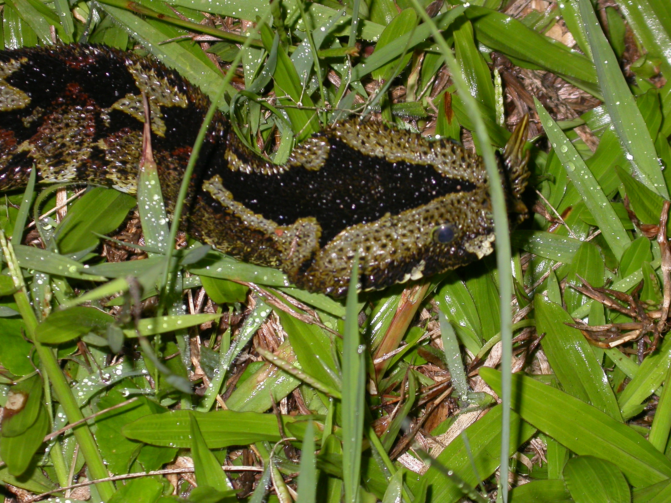 Bitis nasicornia in Kibale National Park, Uganda.